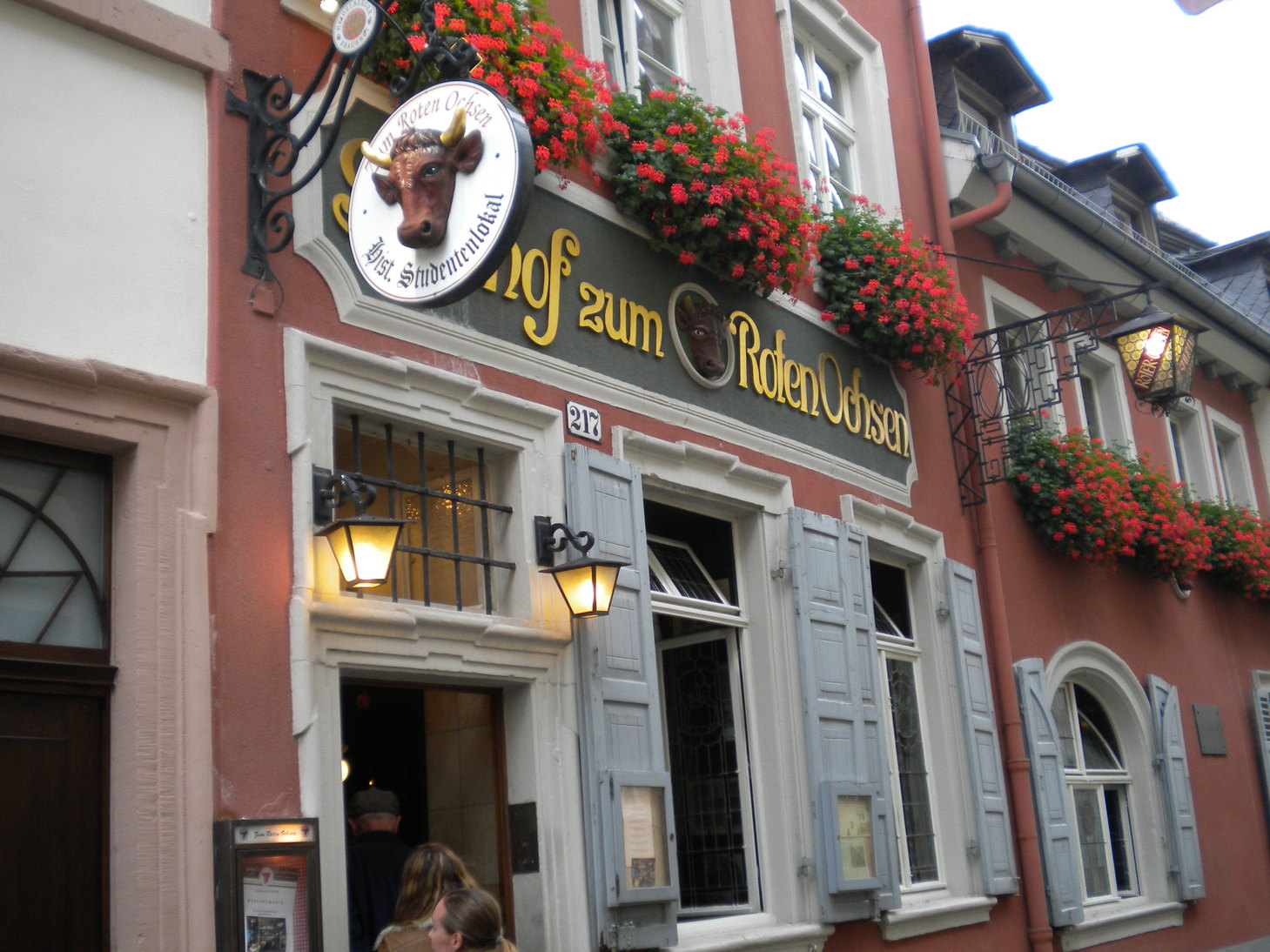 A brief trip to the beautiful city of Heidelberg, Germany - during September 2011. Unfortunately the weather was not so great for nice photographs - but still a few good pictures survived the rain and gloomy skies. Heidelberg is situated in the south-west of the country. The fifth largest city of the German State of Baden-Württemberg. The images are available for us - but please respect the Attribution-ShareAlike License on the images.